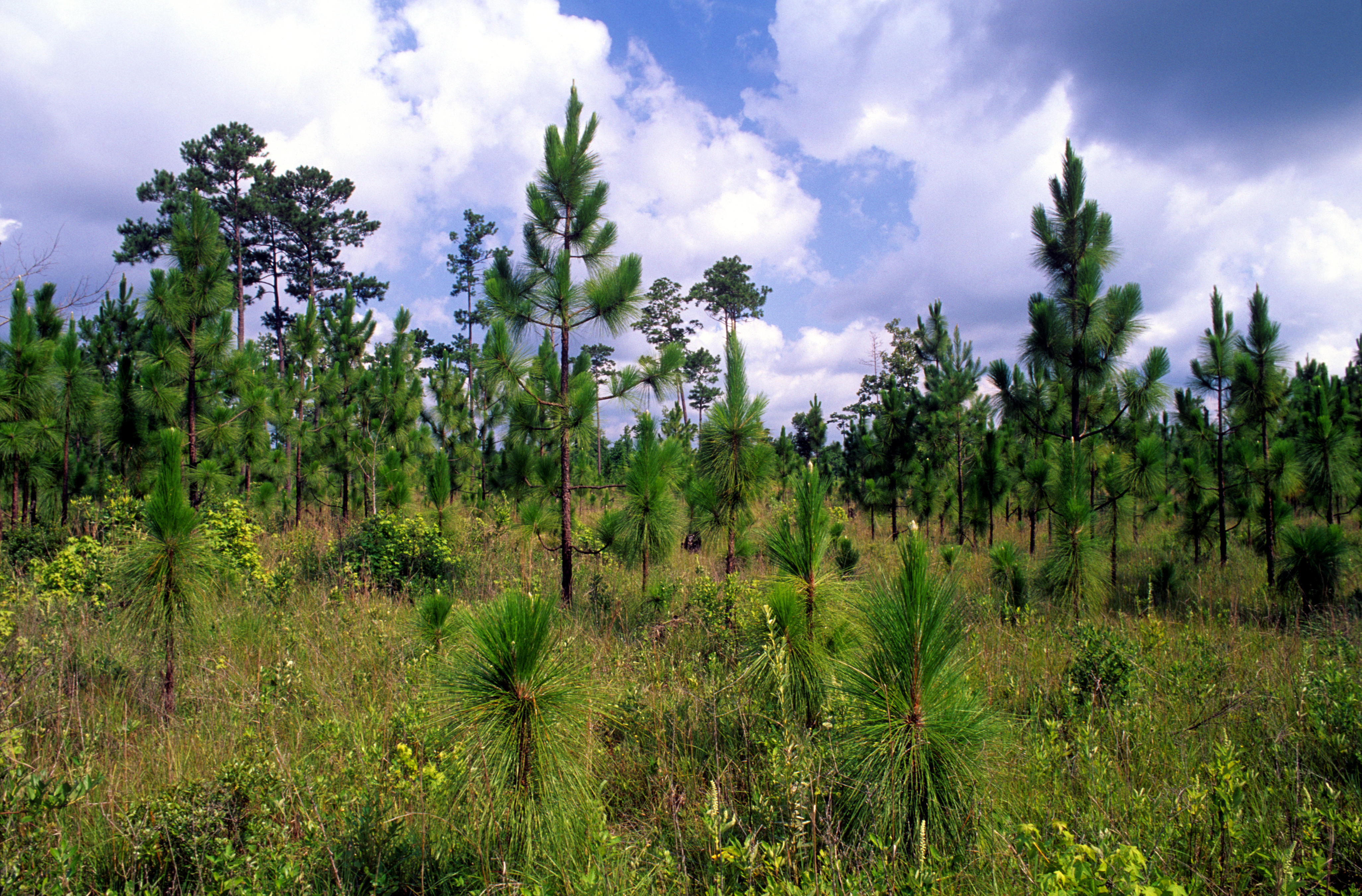 Pinus palustris regeneration, Wambaw Ranger District, Francis Marion National Forest, North Carolina